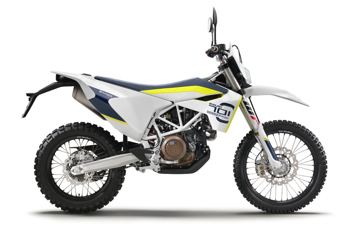 Husqvarna 701 Enduro